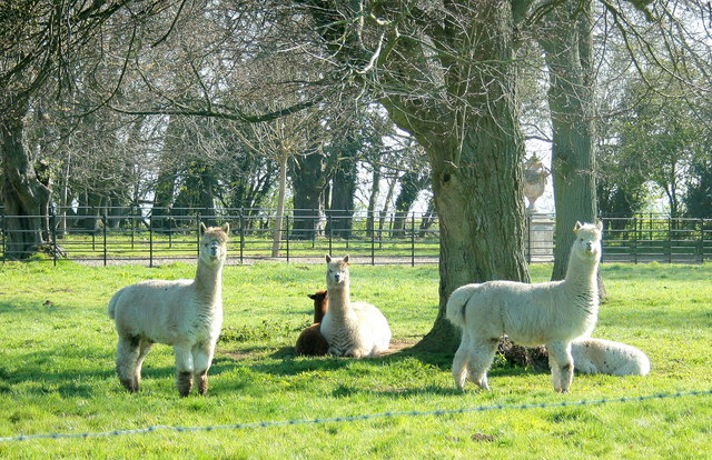 Alpacas at Monks Park Interesting to note the difference in behaviour between these animals and sheep. Whereas sheep would usually flock together and be ready to run, alpacas stay in a group, lift their heads and stare until you are our of sight. Kept for their fine wool, I was told these females have been separated from the males while they give birth.